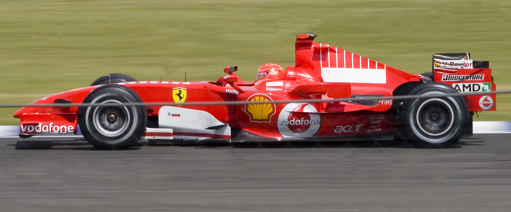 Michael Schumacher driving for Scuderia Ferrari at the 2006 British Grand Prix.